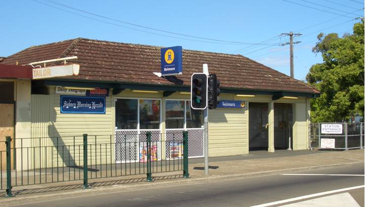 Belmore Railway Station